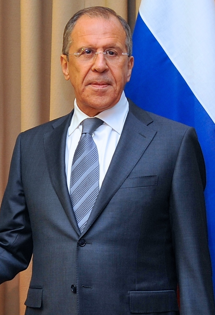 Foreign Minister of Russia Sergey Lavrov and US Secretary of State John Kerry.